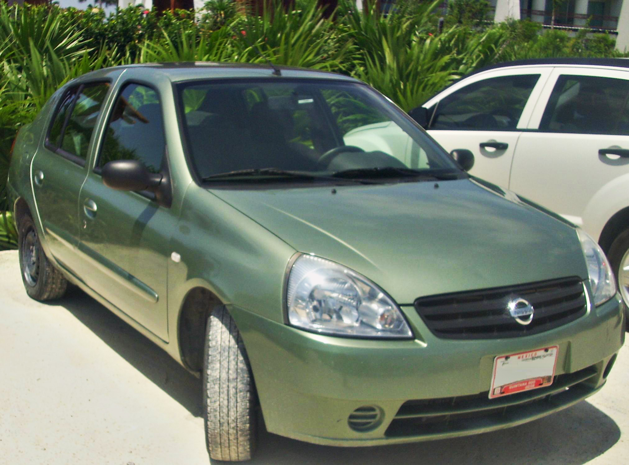 Nissan Platina photographed in Cancun, Quintana Roo, Mexico